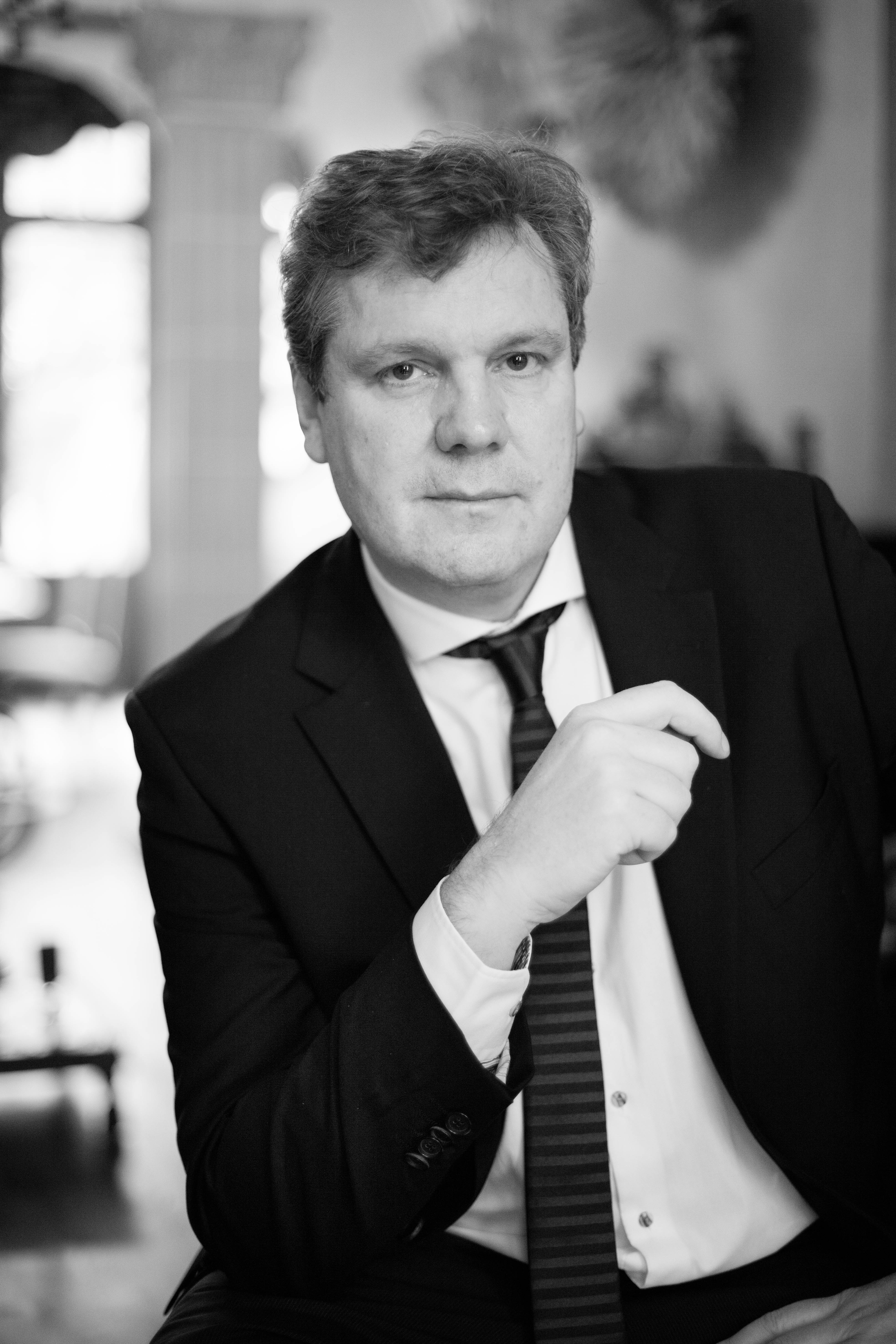 Luc Petit